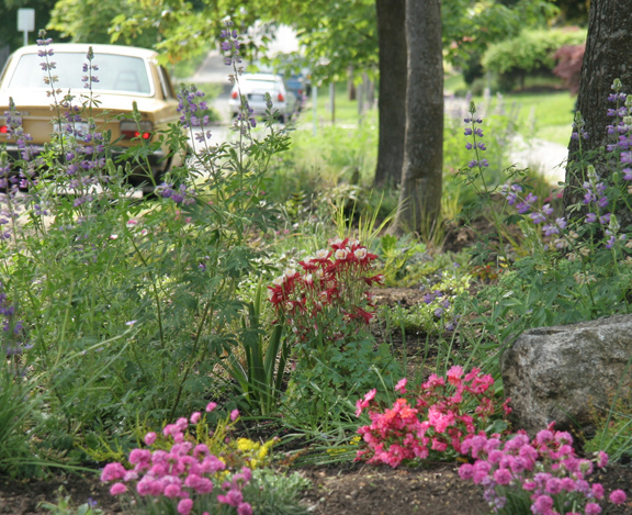 The Pollinator Pathway project-getting ready for next phase